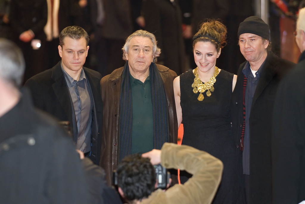 Matt Damon, Robert De Niro, Martina Gedeck, Timothy Hutton Arrival for the premiere of "The good shepherd", Berlinalepalast, Postdamer Platz, Marlene-Dietrich-Platz